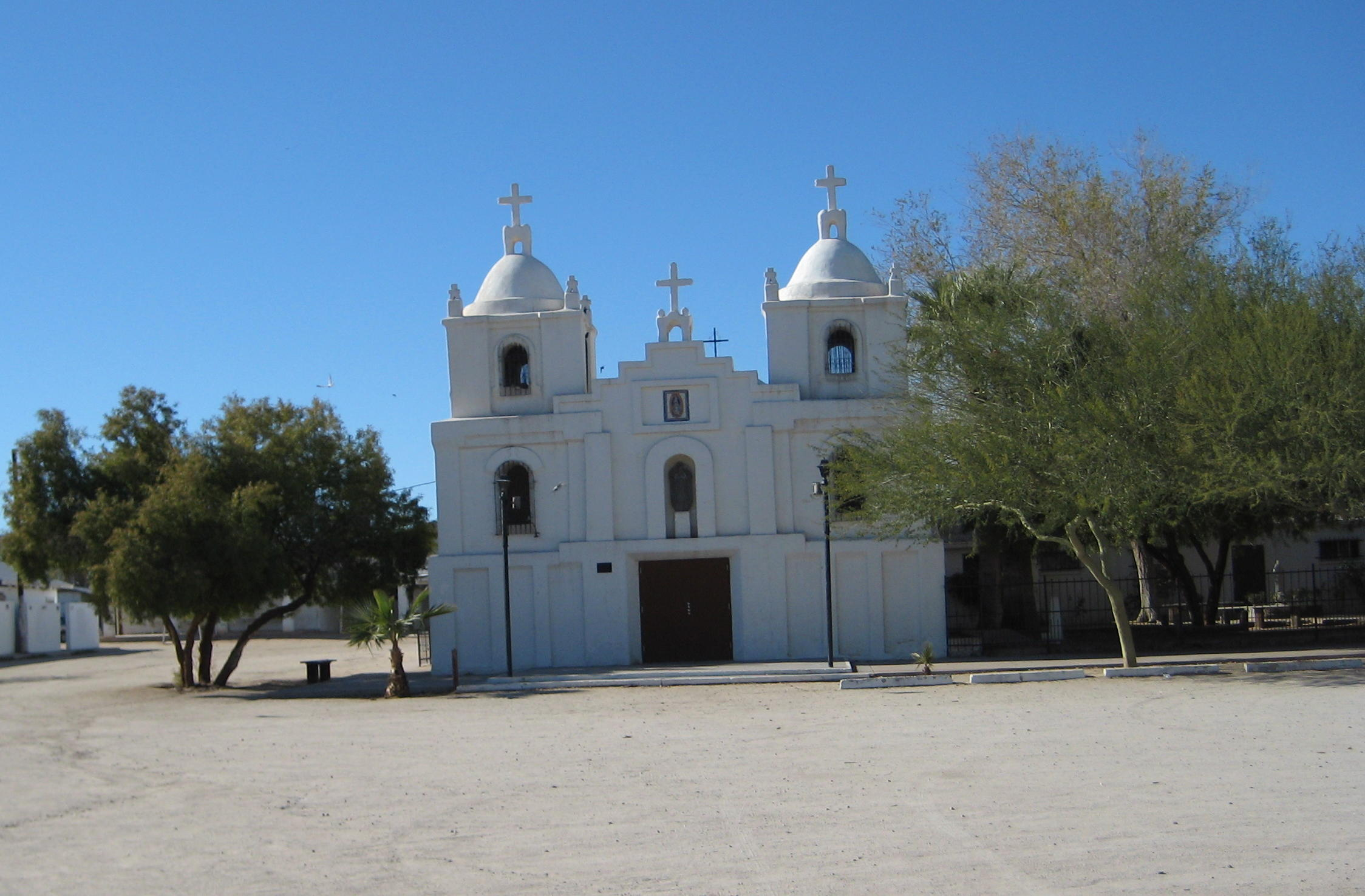 Church in Guadalupe, AZ Uploaded on December 28, 2007 by Logan Antill (cropped)